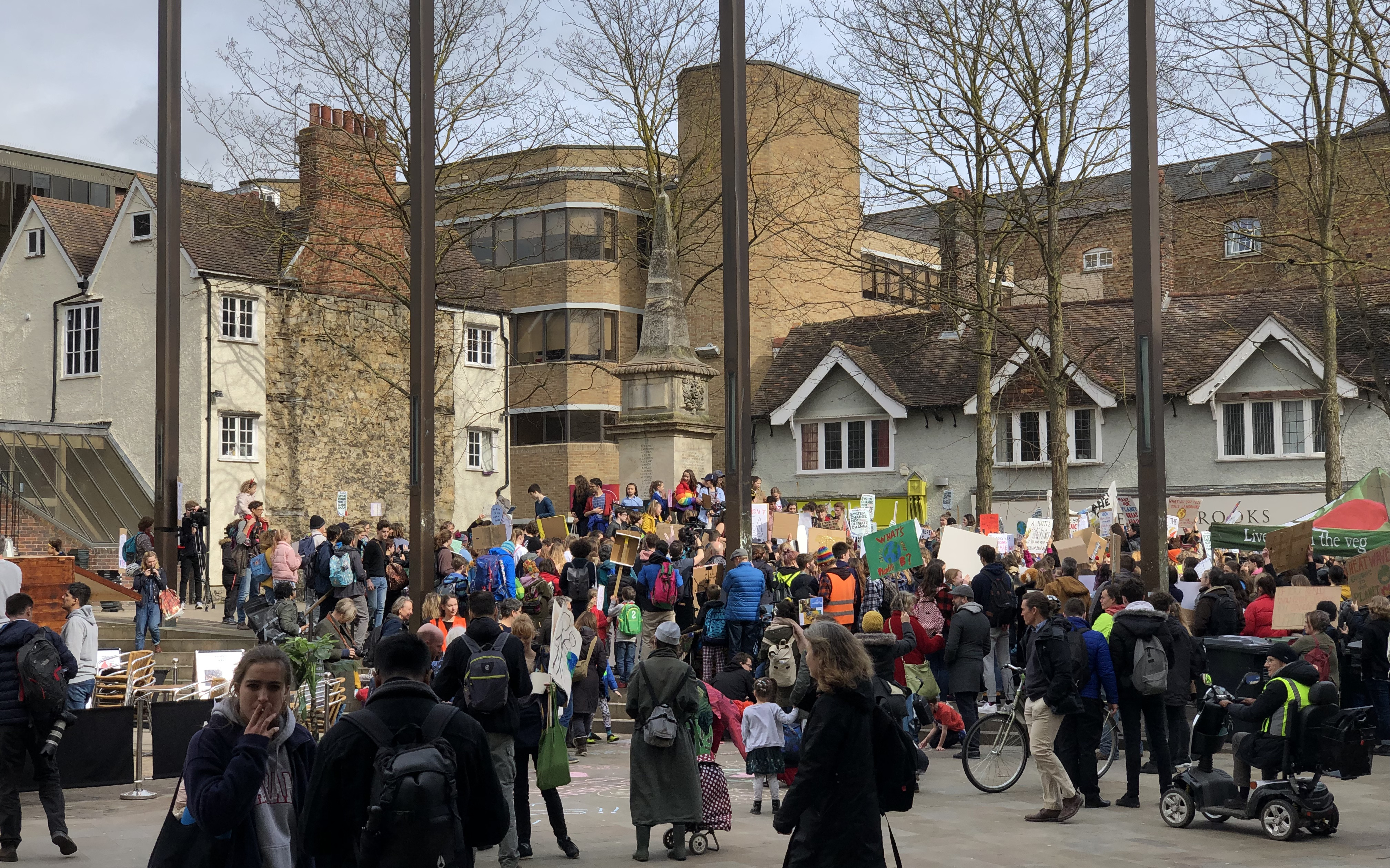 A large group of young people at 11am in Oxford gathered at Bonn Square to protest lack of action in governments against climate change. The movement was spearheaded by Greta Thunberg alone at the age of 15 and now children around the world join her.